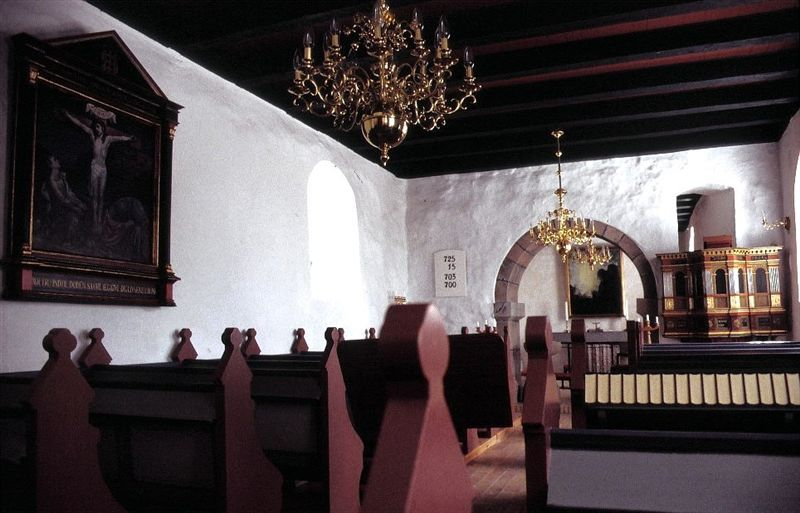 Hellum Kirke (church) in Brønderslev Kommune, from apr. 1100